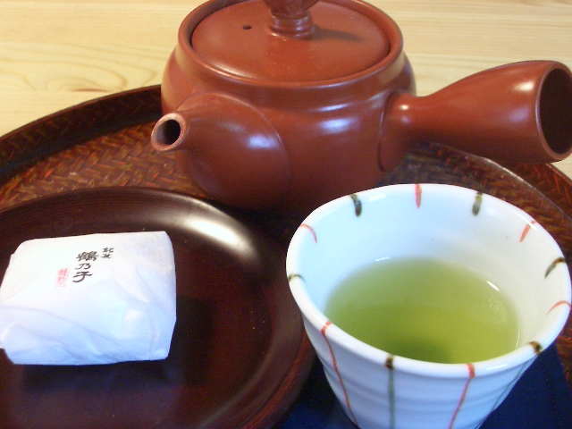 Utensils for the Japanese tea cerimony. Original caption: 今日のお茶請けは、石丸萬盛堂の『鶴乃子(turunoko)』